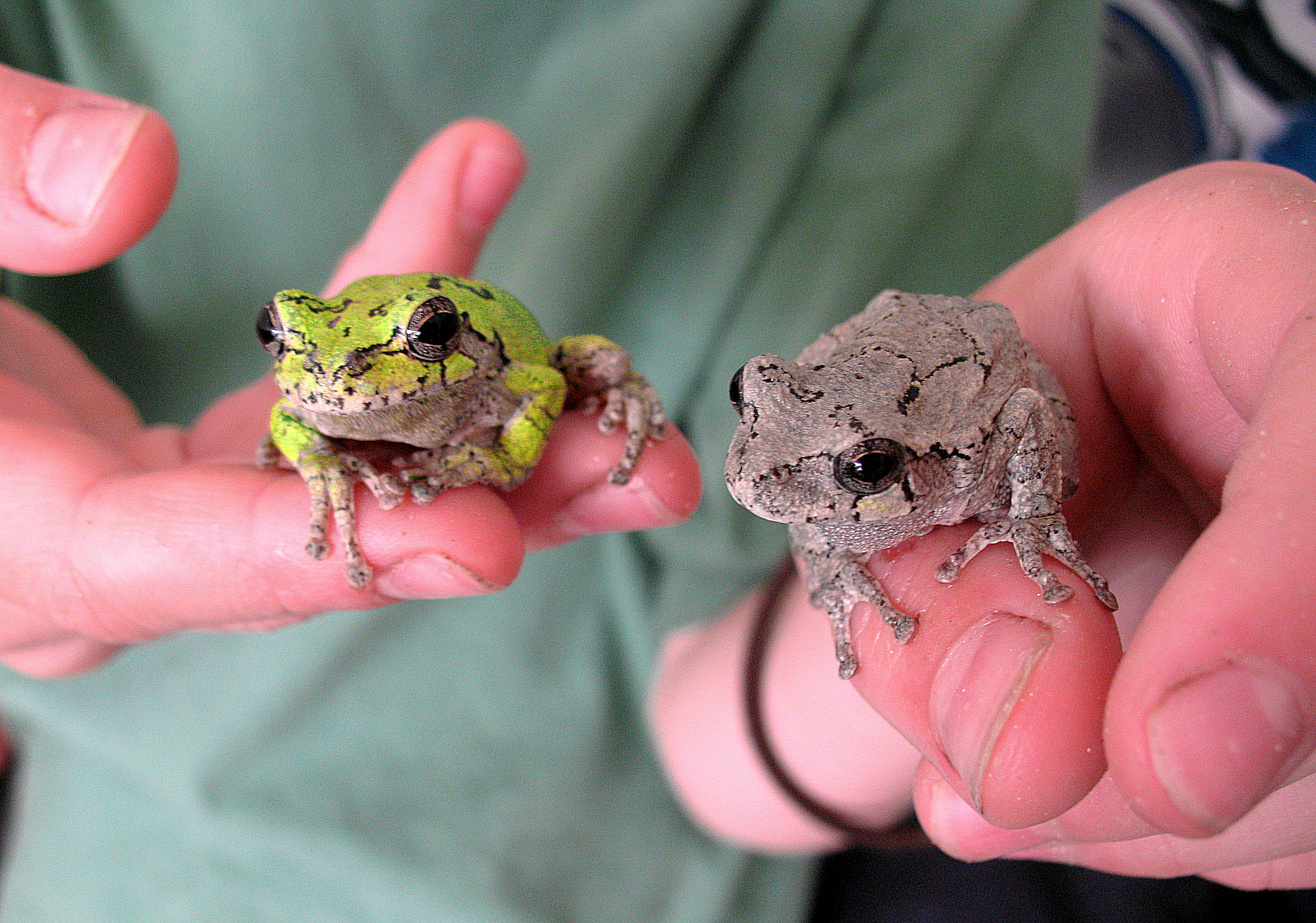 Two male Grey Tree Frogs, Hyla versicolor